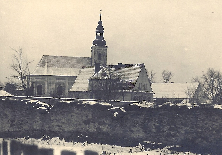 The church of St. Maria and St. Bartholomew - behind the village school ca 1943